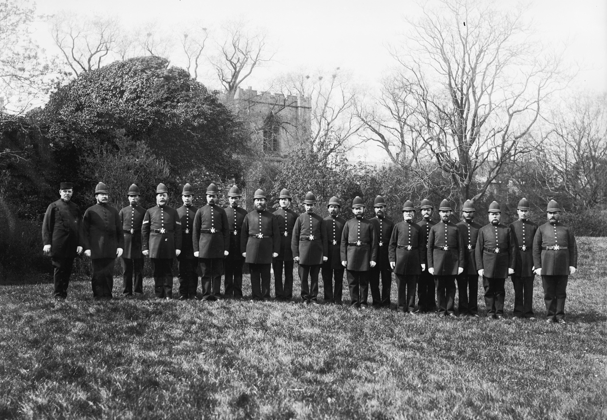 Portrait of a group of policemen, Bury St Edmunds, Suffolk, England. Courtesy of the Bury St Edmunds Past and Present Society, Spanton-Jarman Collection.